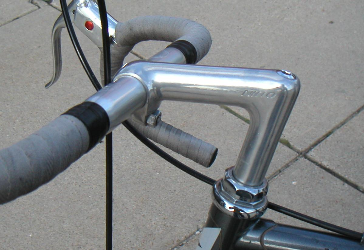 Taken by Andrew Dressel